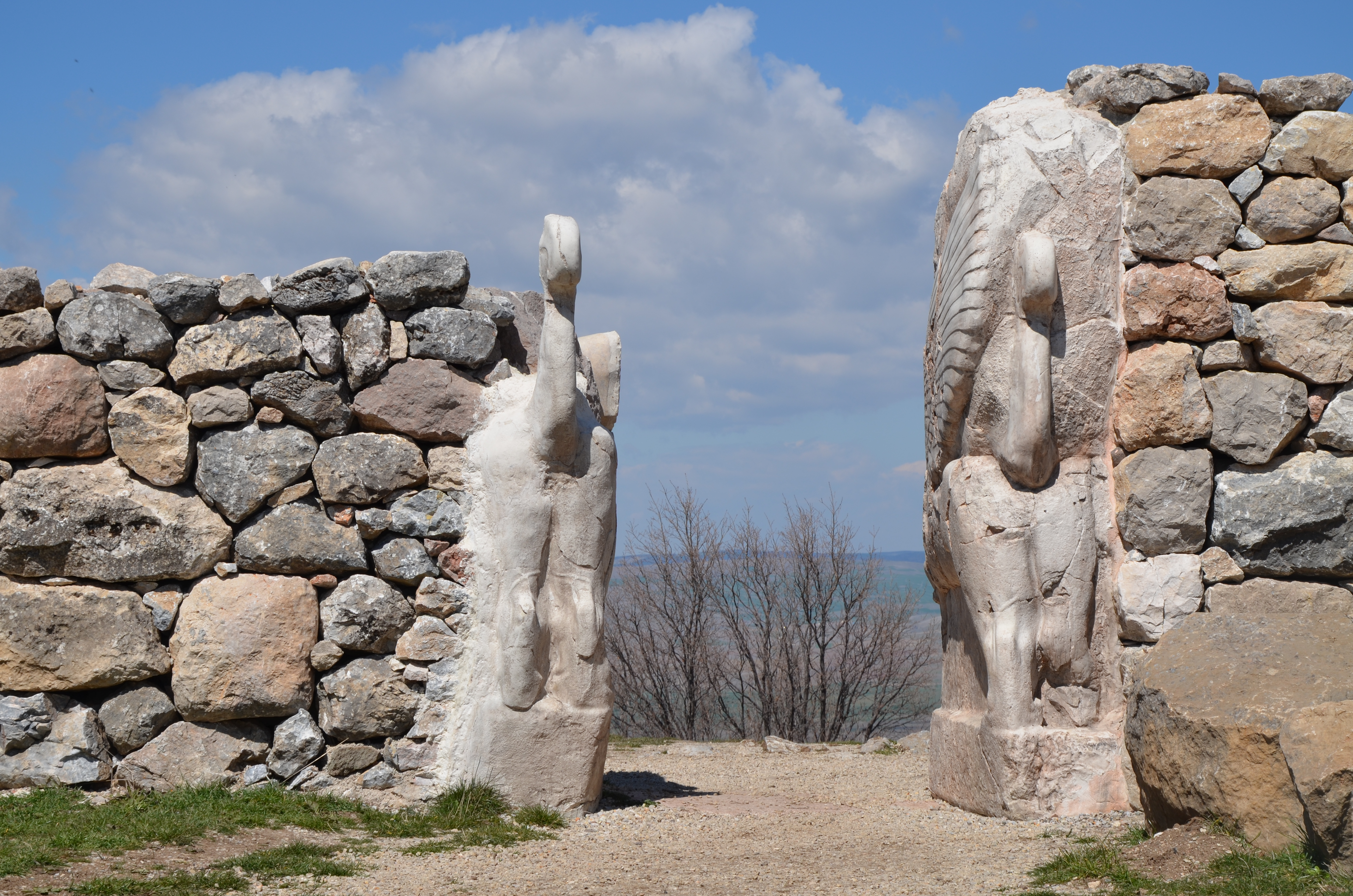 The Sphinx Gate standing above the Yerkapi Rampart, Hattusa, the capital of the Hittite Empire in the late Bronze Age, Boğazkale, Turkey